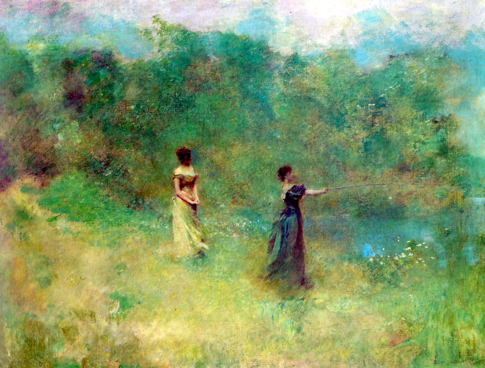 Summer by Thomas Wilmer Dewing oil on canvas 42 1/8 x 54 1/4 in. (107.0 x 137.8 cm.) Smithsonian American Art Museum ; gift of William T. Evans on 1909-07-21